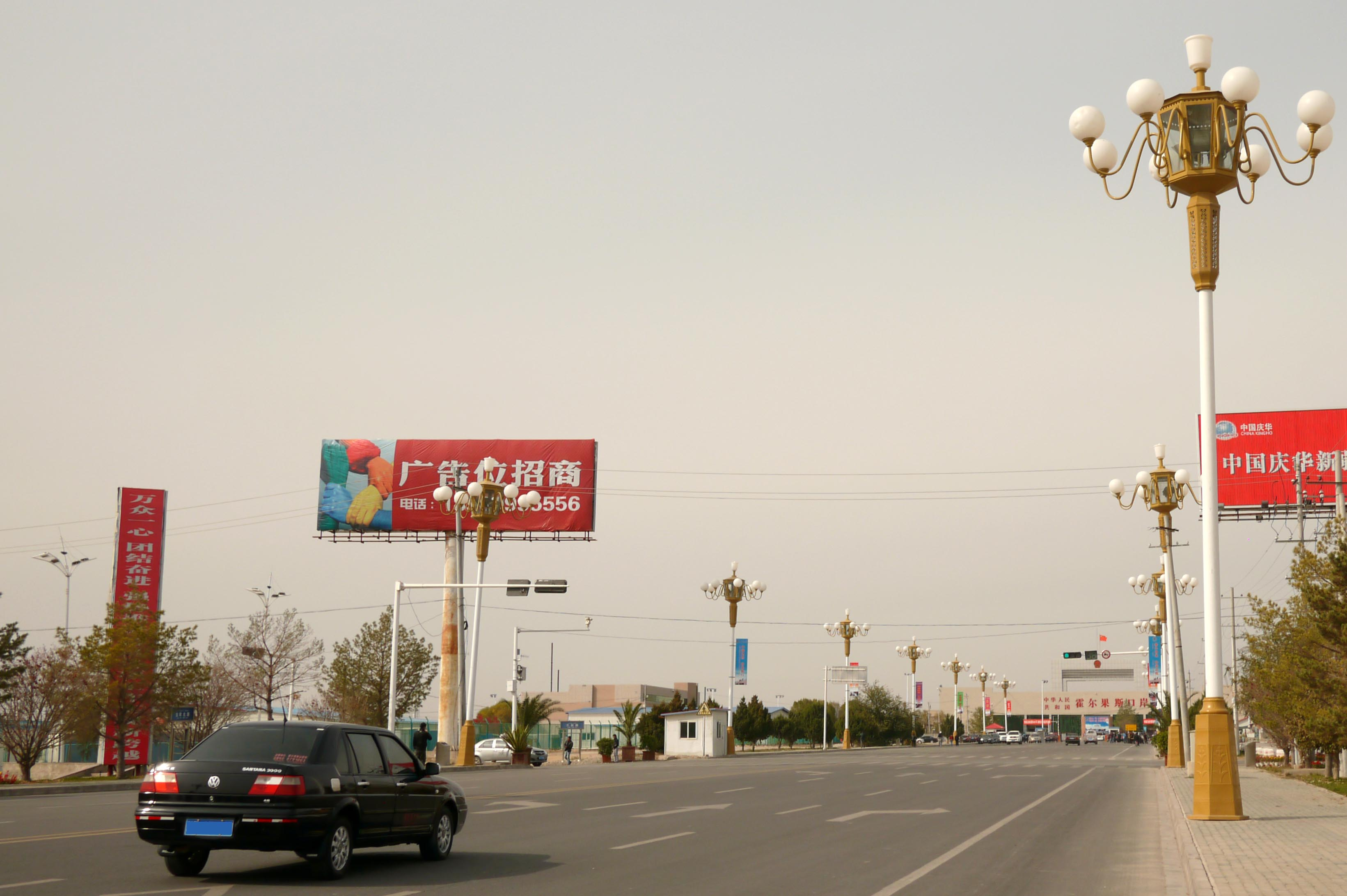 Border of China at Kazakhstan from the Chinese side, at Khorgas